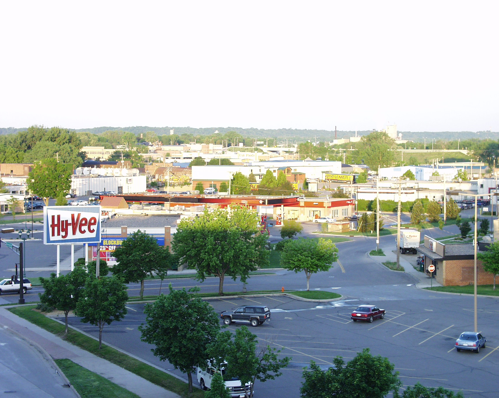 From the parking ramp